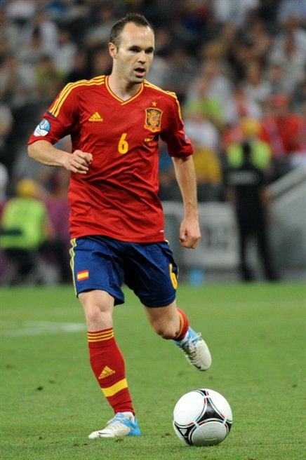 Andrés Iniesta at Euro 2012 match Spain-France